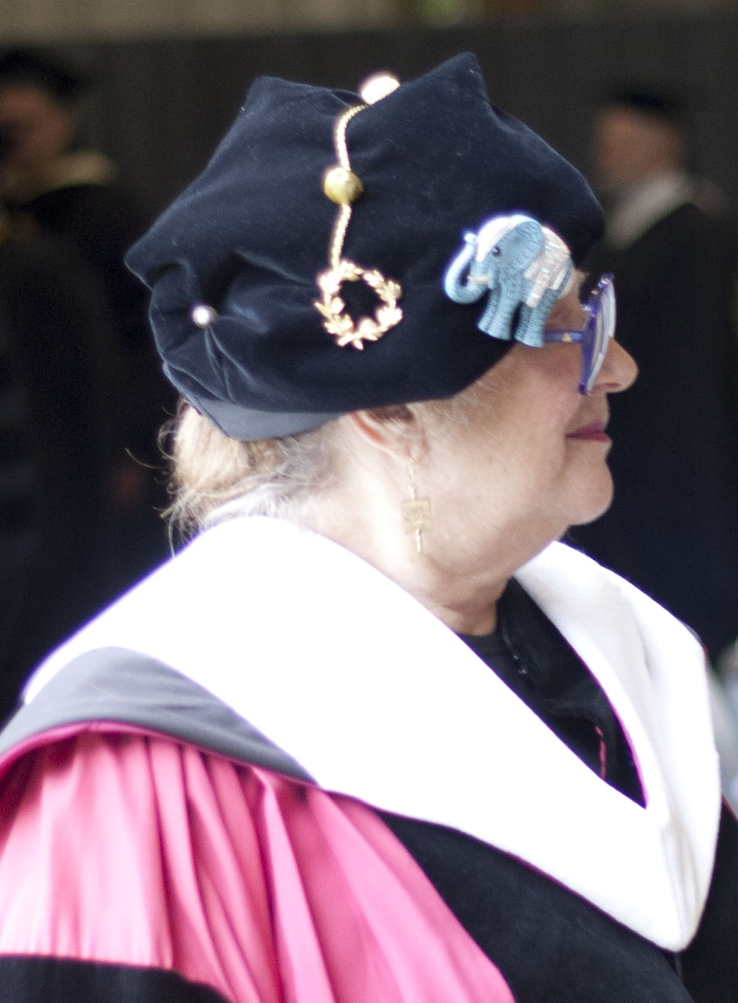 Scholar Wendy Doniger in graduation regalia at the Shimer College commencement in Chicago in 2012, where she gave the commencement address.